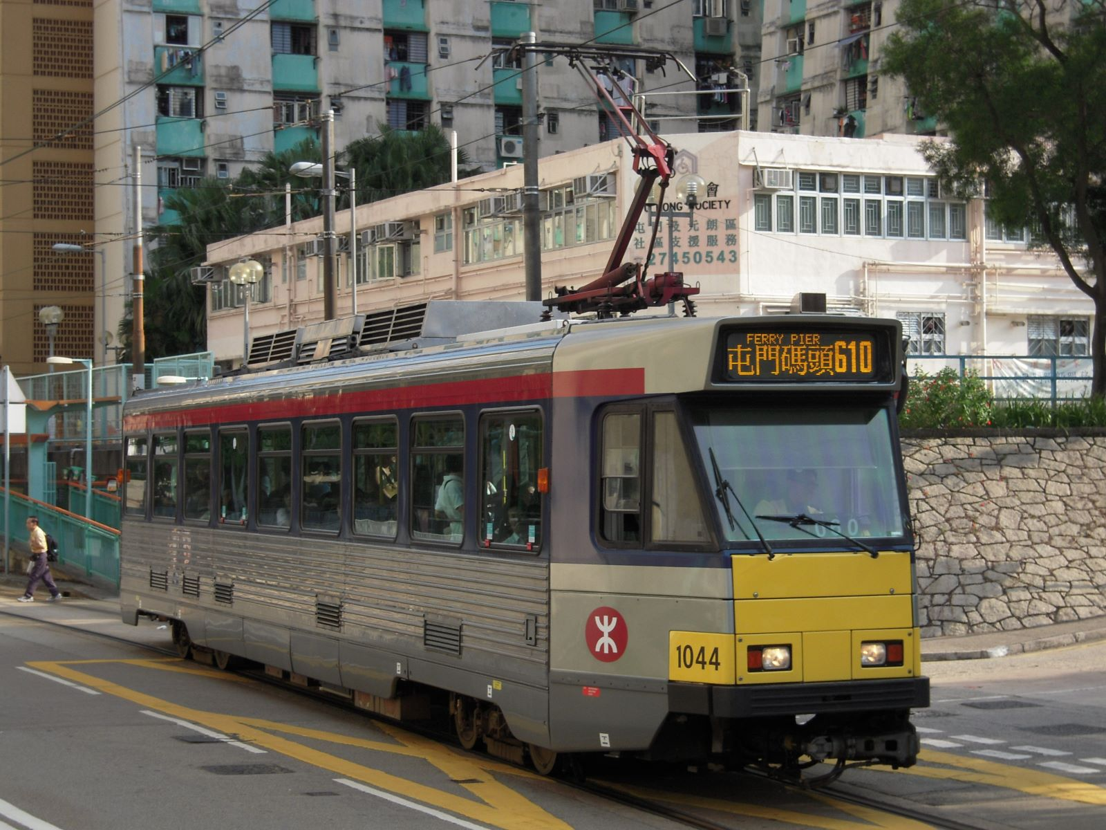 MTR LRT Train 1044 on route 610 at Tai Hing North Stop